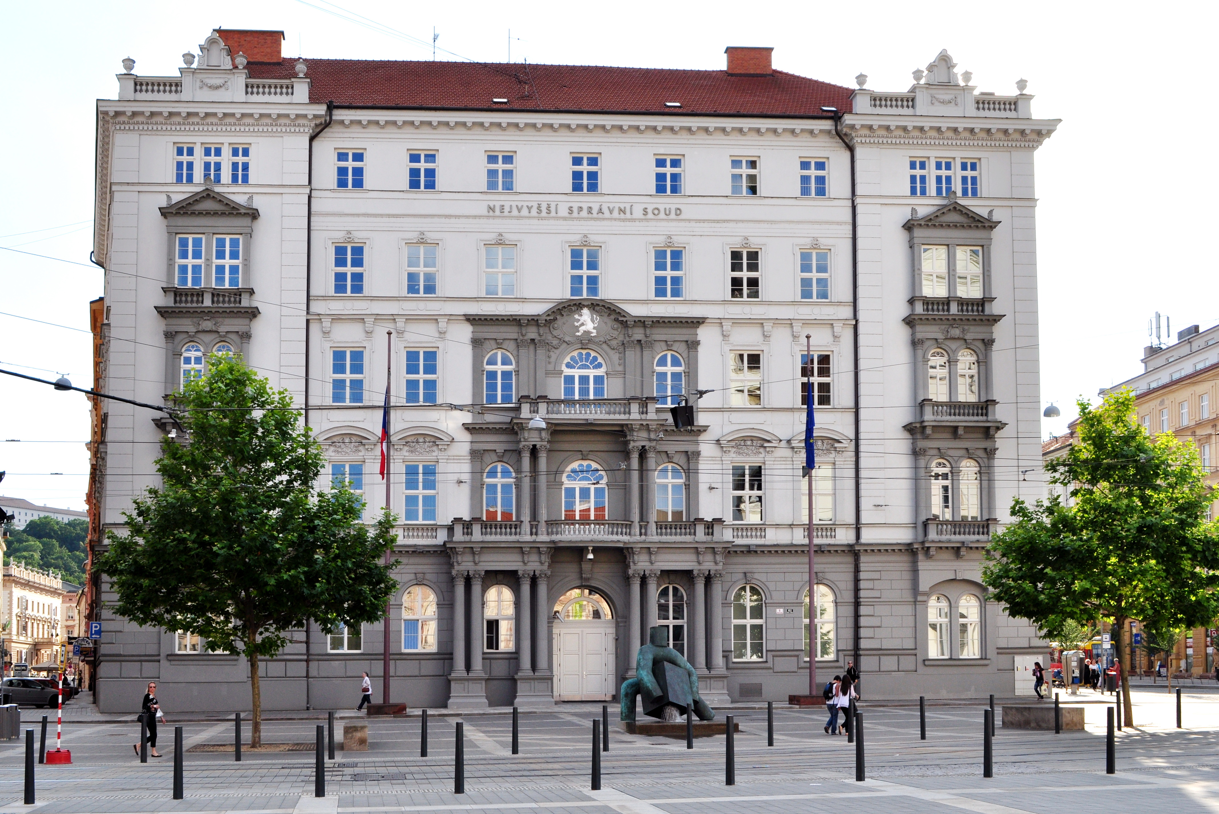 Supreme administrative court of the Czech Republic